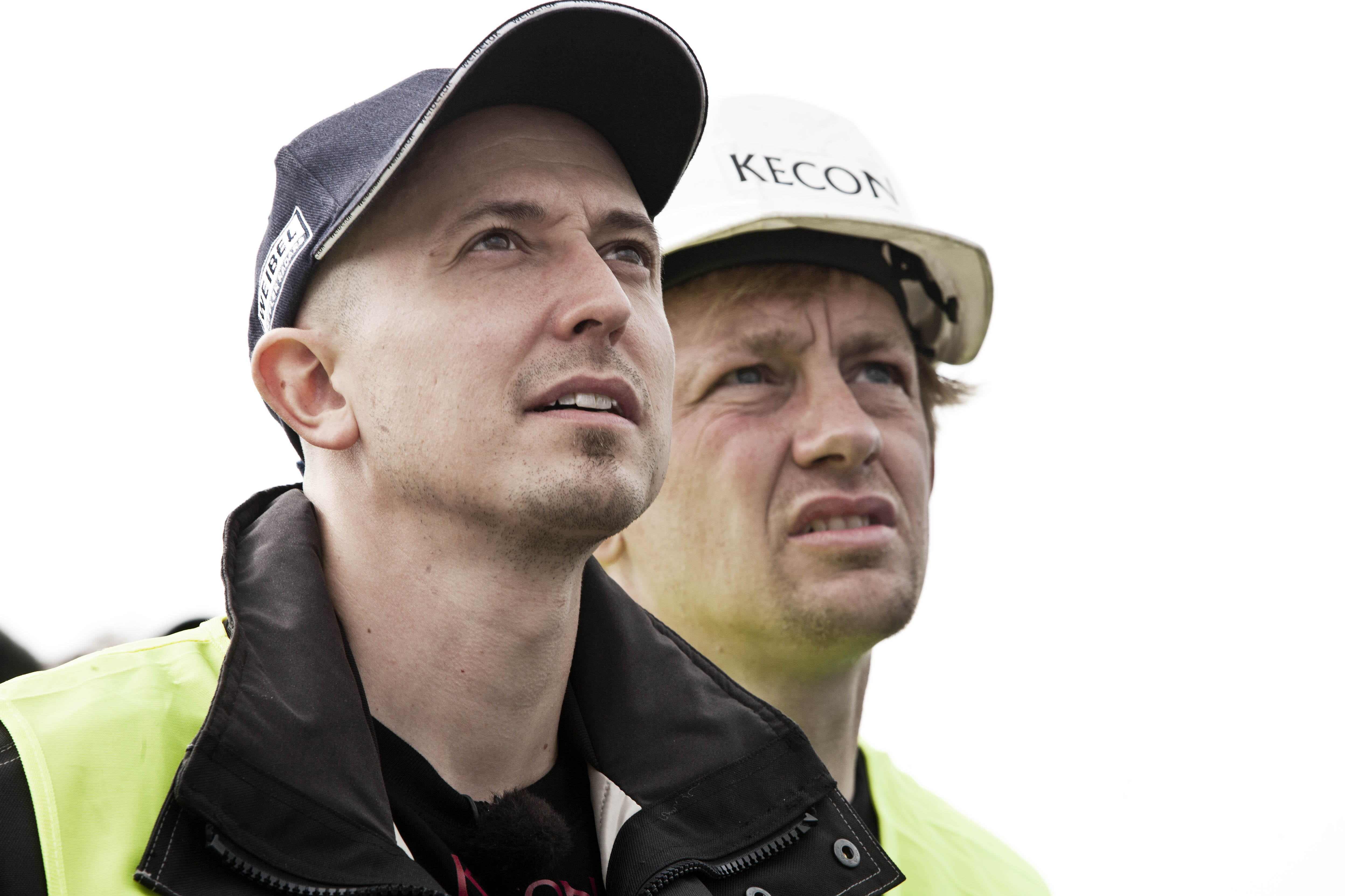 Kristian von Bengtson and Peter Madsen